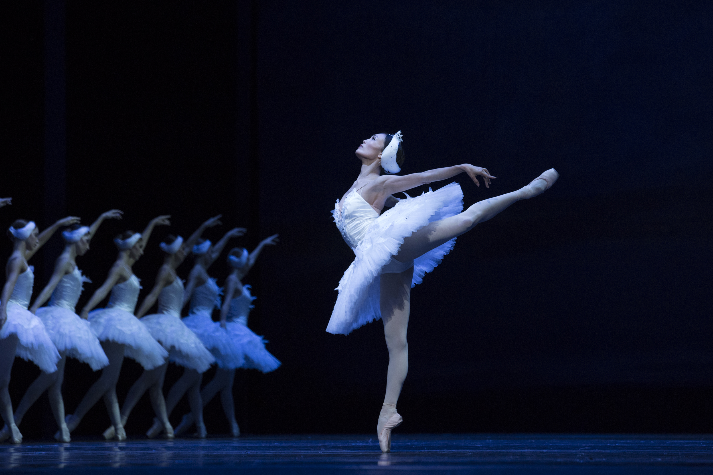 Yuka Ebihara (Odetta), "Swan Lake", Polish National Ballet, choreography by Krzysztof Pastor after Lev Ivanov